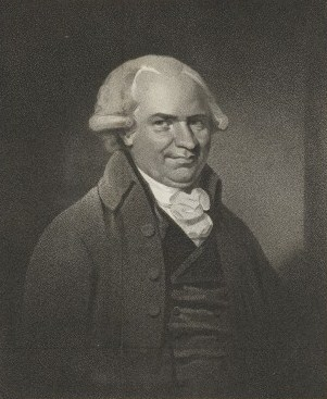 Portrait of James Sims (1741–1820), physician. From Hints Designed to Promote Beneficence, Temperance, and Medical Science (1801) by John Coakley Lettsom.